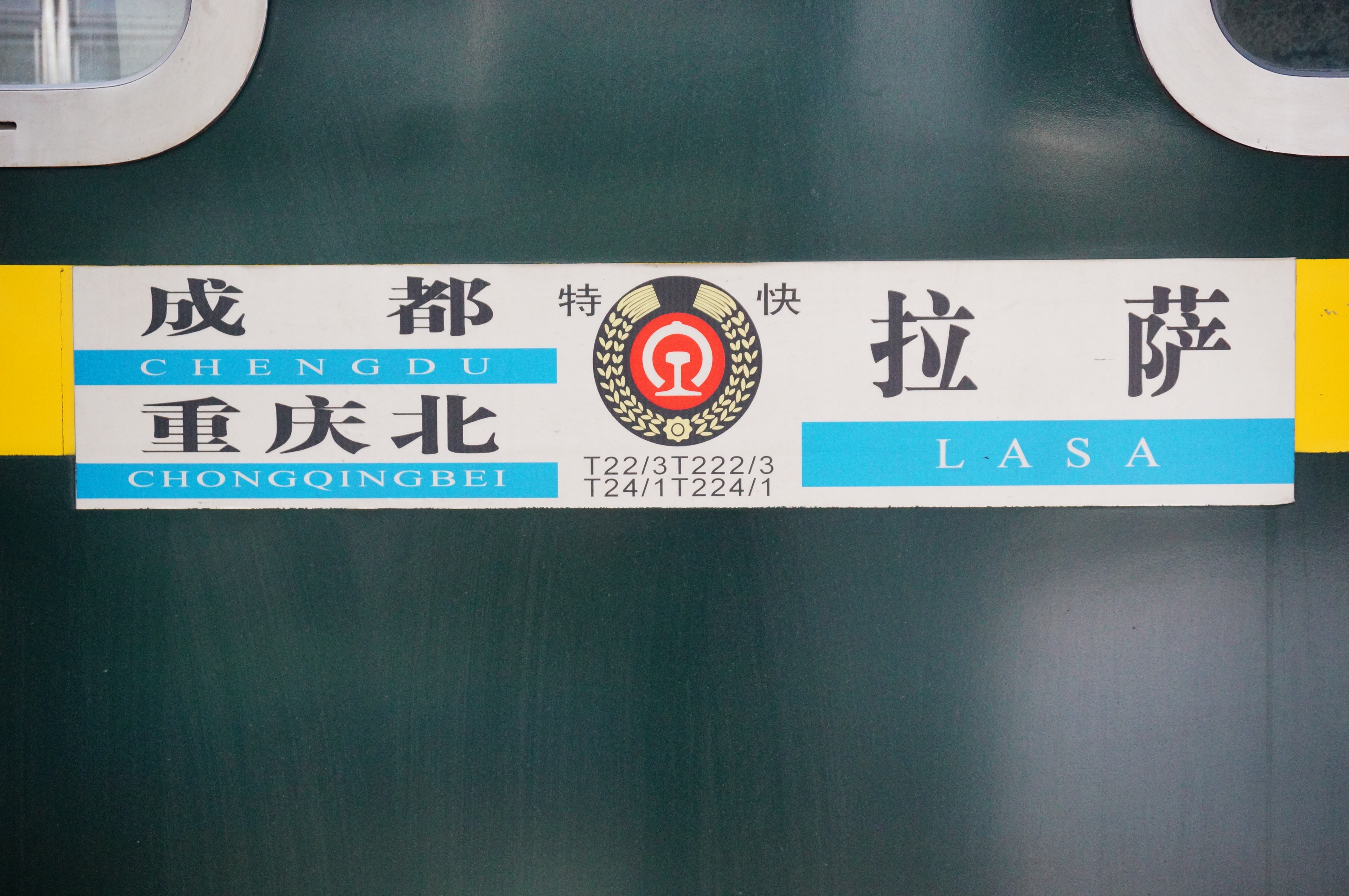 Qinghai-Tibet Railway Carriage